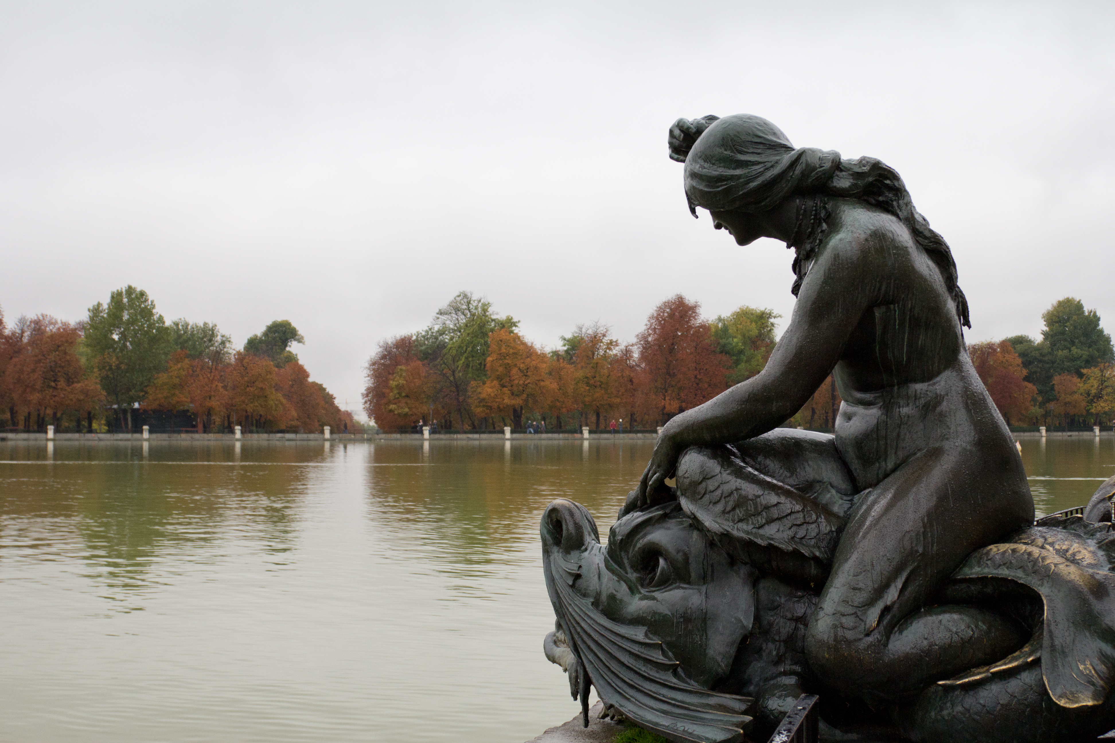 Detail of the monument to Alfonso XII in Buen Retiro Park, Madrid, Spain.